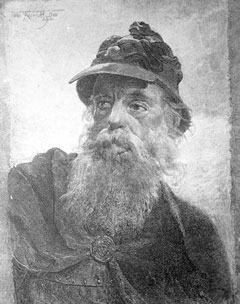 Baron De St Castin 1881 by Will H Lowe Wilson Museum Archives